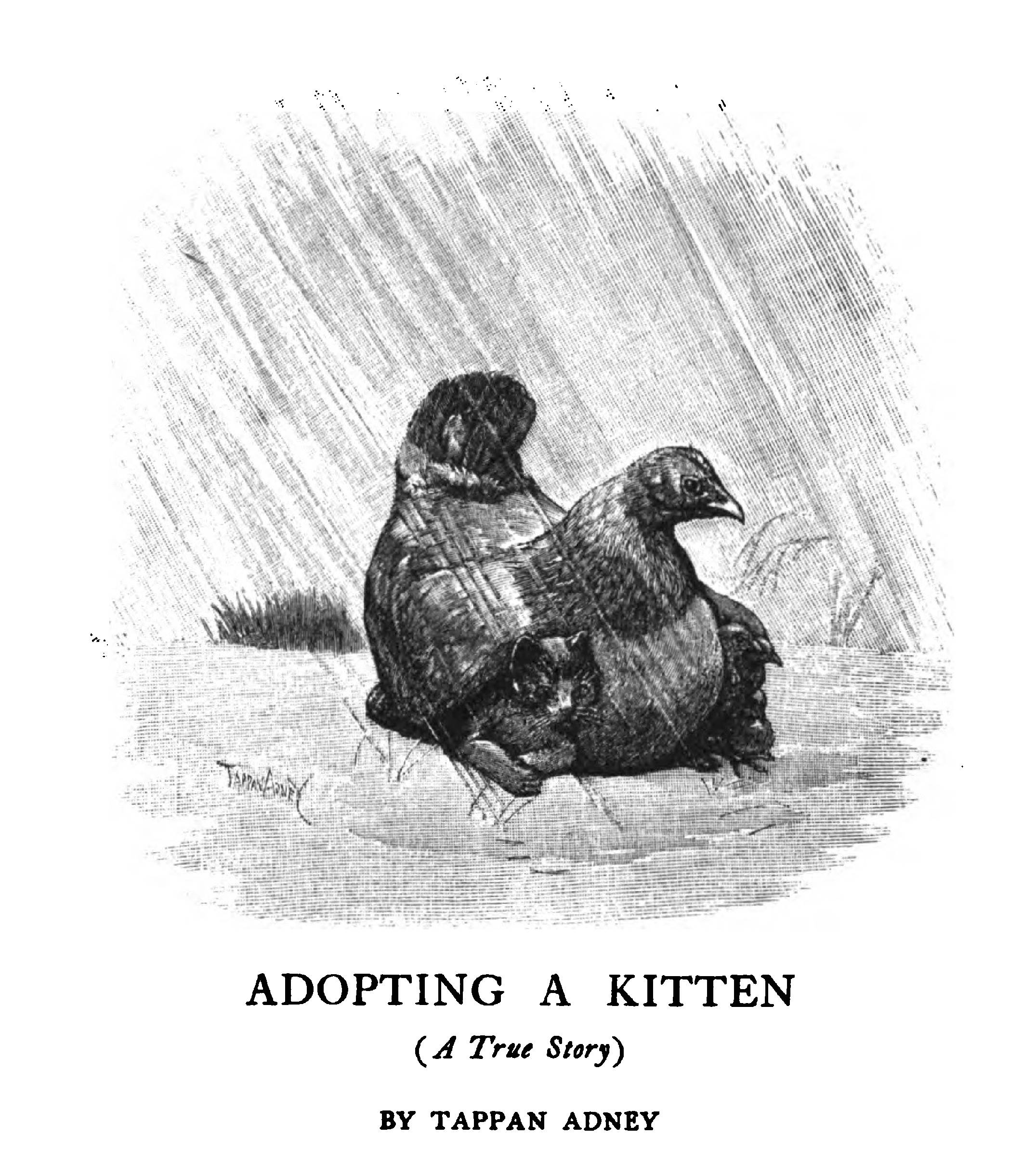 An illustration from a story "Adopting a Kitten" by Tappan Adney